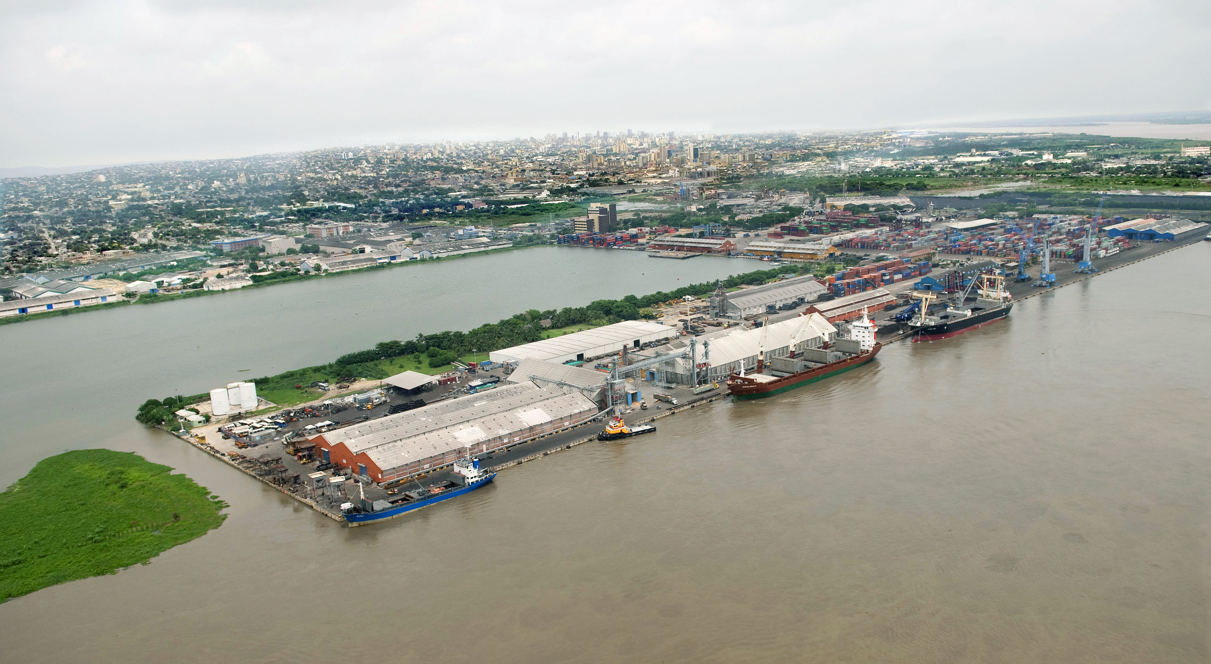 Barranquilla's port